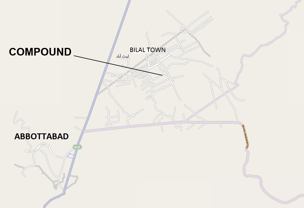 Bin Laden Compund